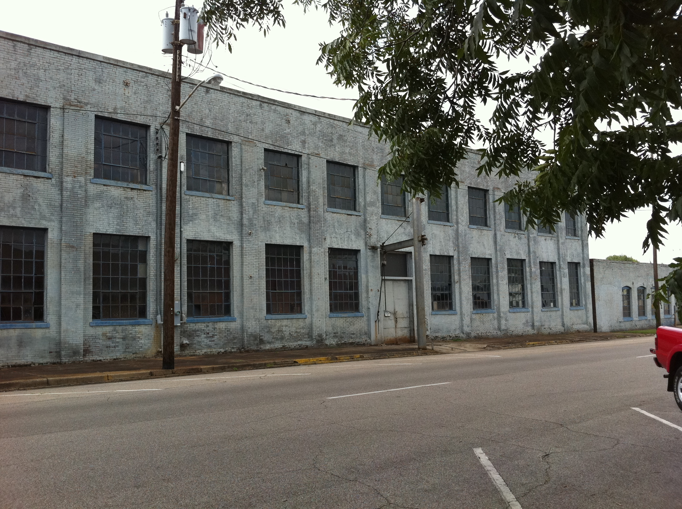 Main machine factory of Soulé Steam Feed Works in downtown Meridian, Mississippi